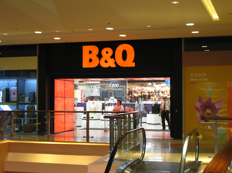 MegaBox B&Q Store in Hong Kong. This store closed a few years ago as of 2013.